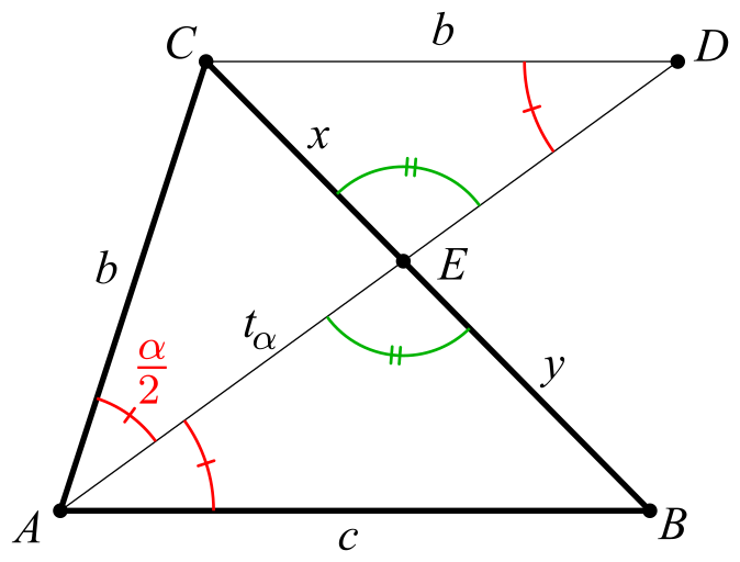 Bisektrissatsen